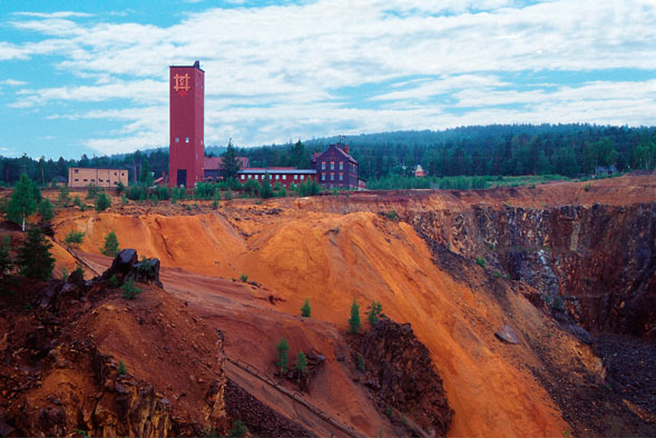 The "Great Pit", Copper Mine in Falun (Sweden), Photographer Wigulf